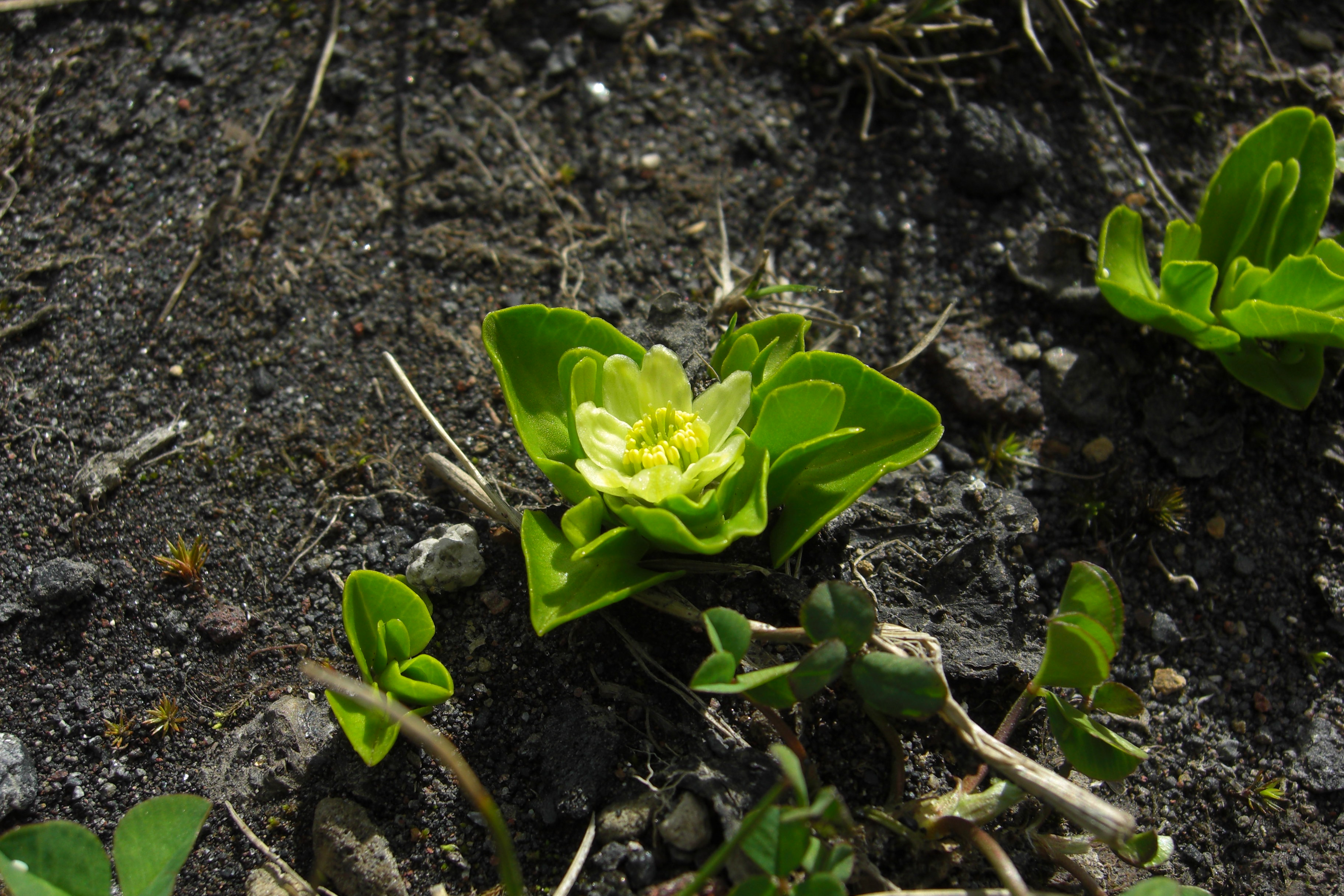 Caltha sagittata Cav. 20081211.29 Volcan Quetrupillan, Chile alpine meadow Check out those bizarre leaves. (You can see them better This is a very small specimen -- they can get rather larger. Look for them in boggy alpine meadows.